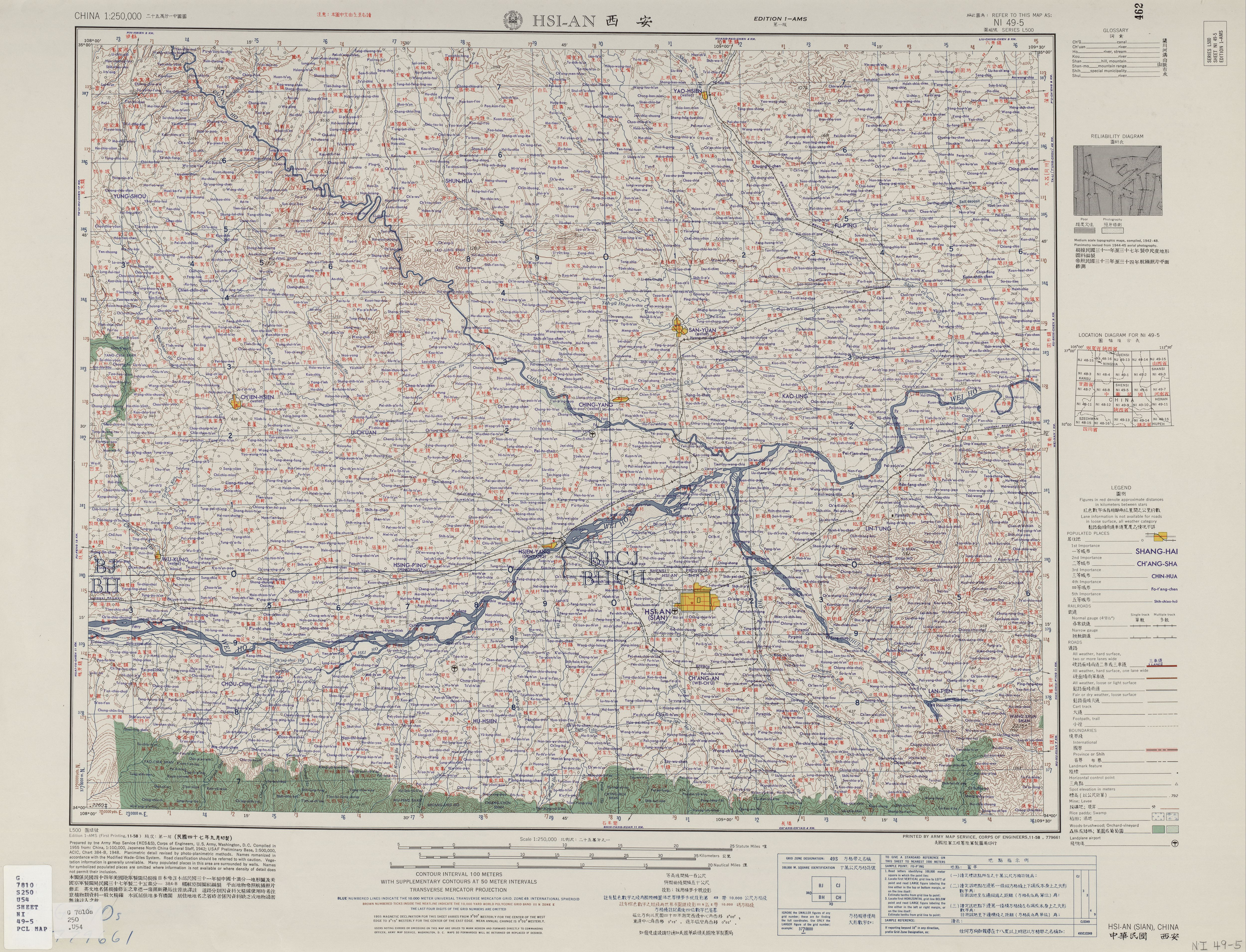 China AMS Topographic Maps